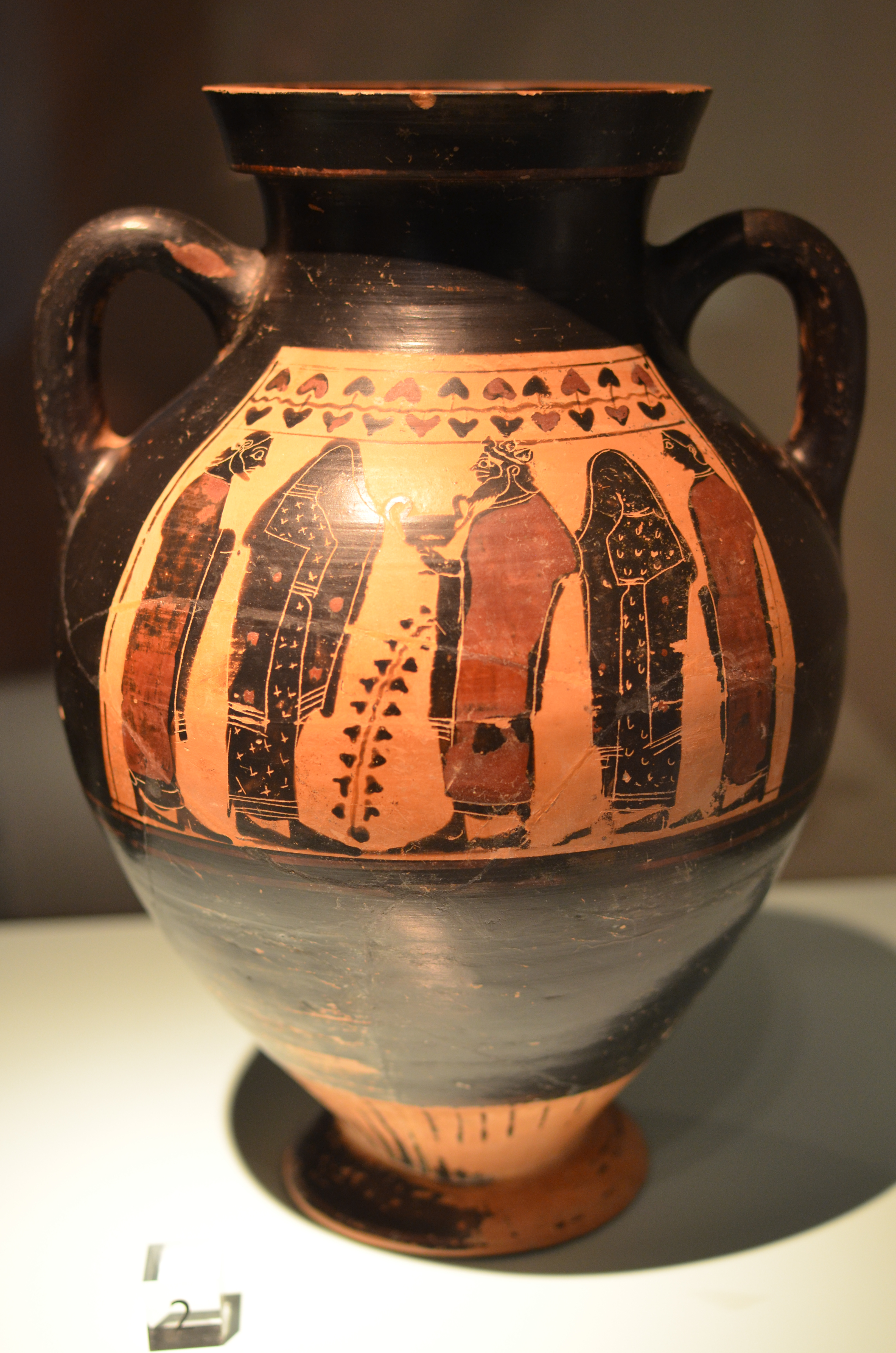 Attic black-figure amphora showing Dionysos with bystanders.